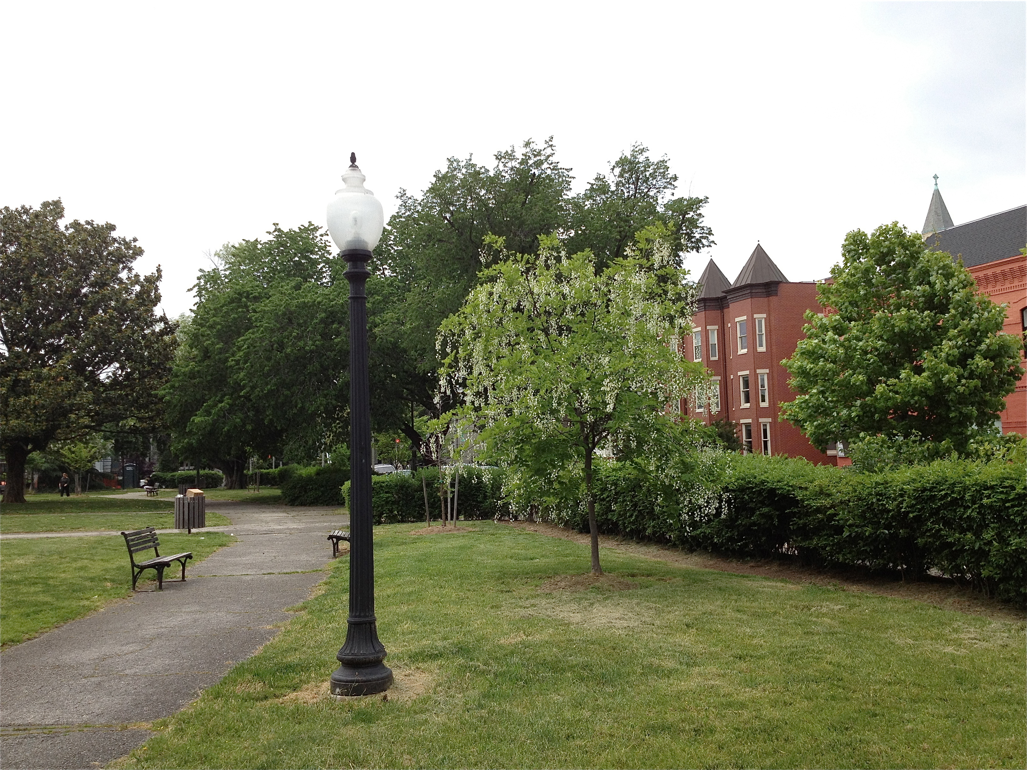 Folger Park, Capitol Hill, Washington DC, May 2, 2012.